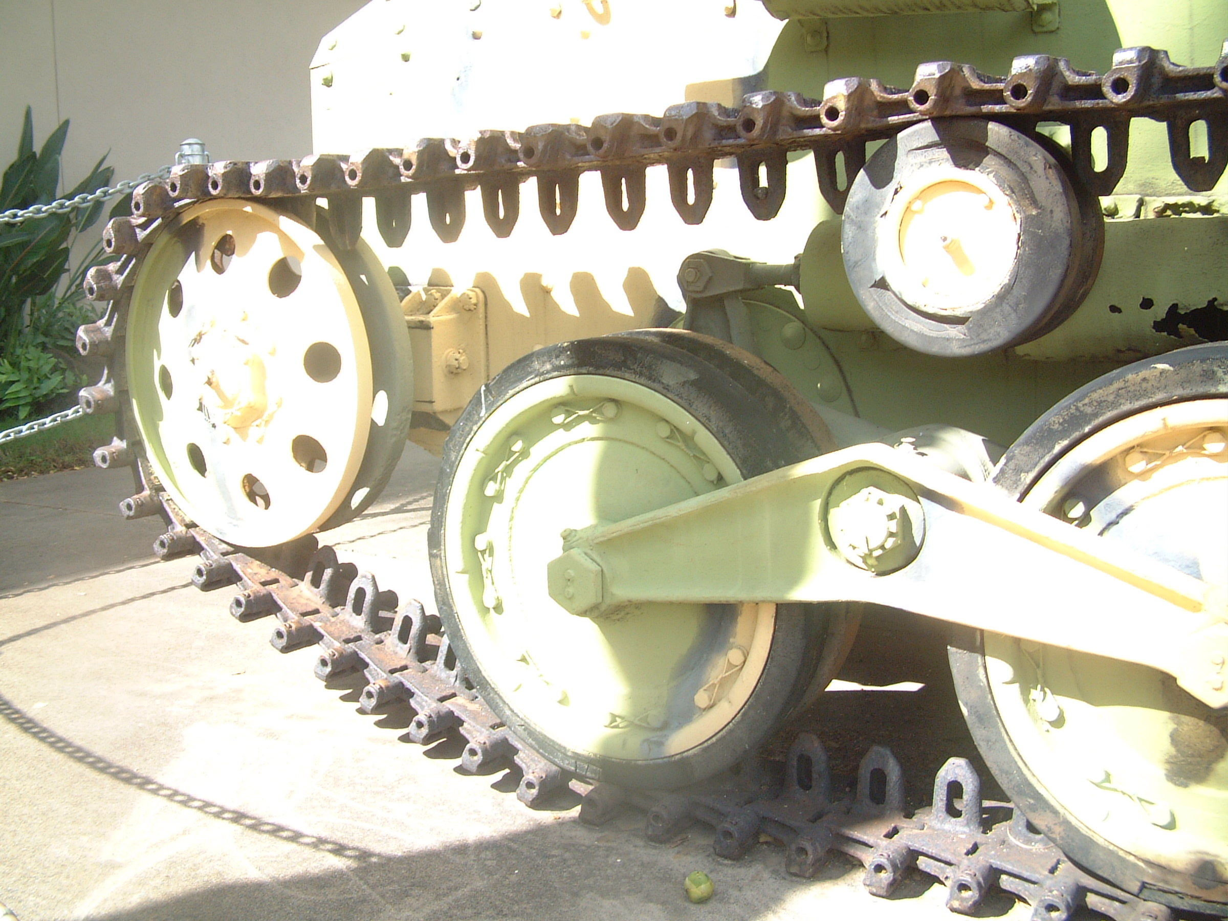 Type 95 tank that was captured during the Battle of Makin, November 20, 1943 by the 27th infantry division. Now on display at Battery Randolf US Army Museum, Honolulu. Other views: Image:Type 95 Front 3-4 view.JPG Image:Type 95 front right side 3-4 view.JPG Image:Type 95 rear view.JPG Image:Type 95 top rear 3-4 view.JPG Image:Type 95 wheel and treads detail.JPG